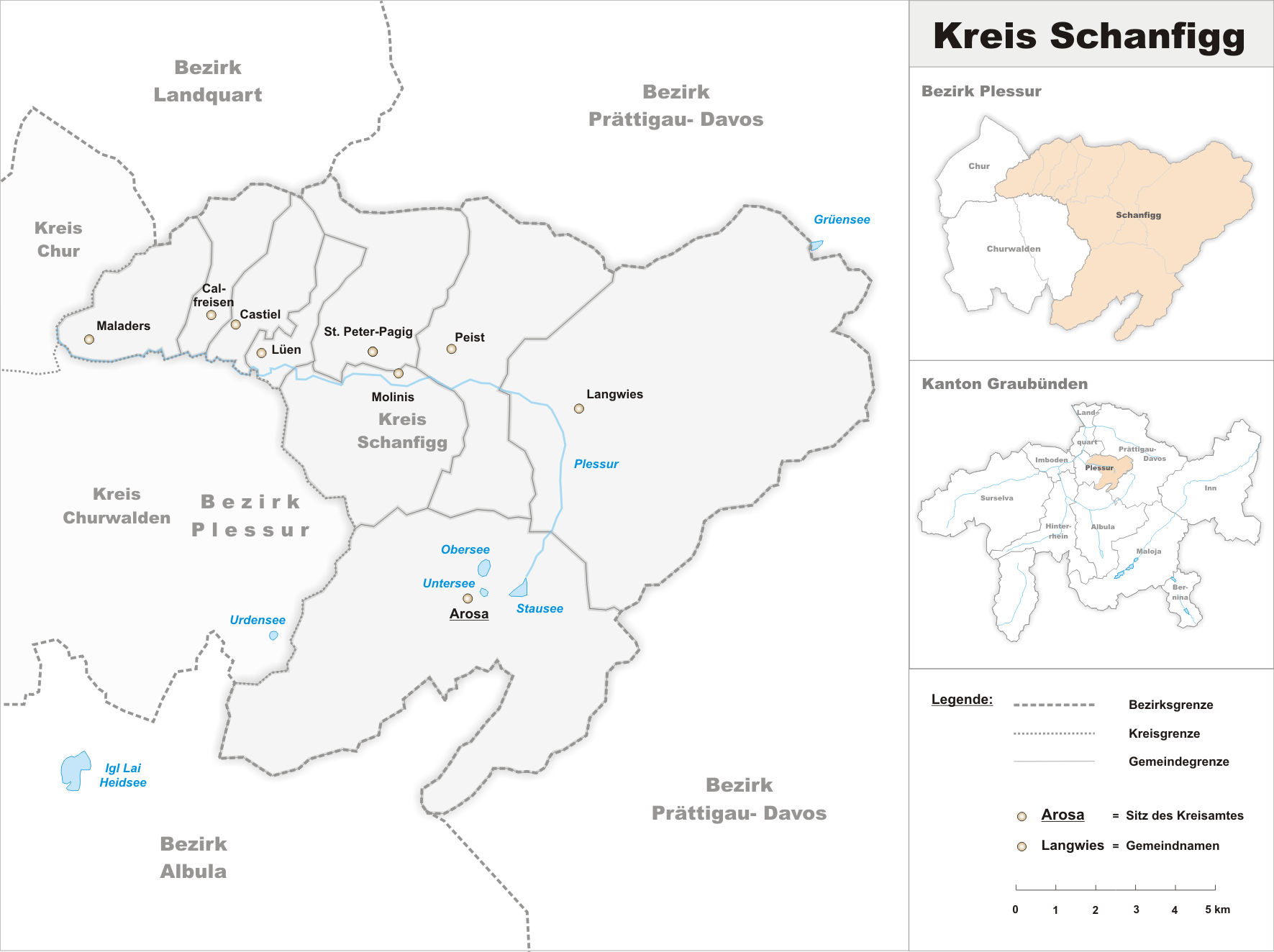 Municipalities in the circle of Schanfigg